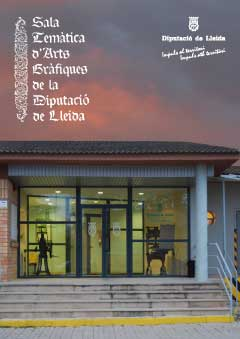 Departament d'Arts Gràfiques de la Diputació de Lleida a la Caparrella